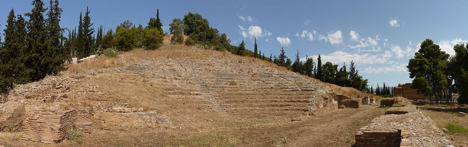 The Odeon of Ancient Argos - more information visit Ploync